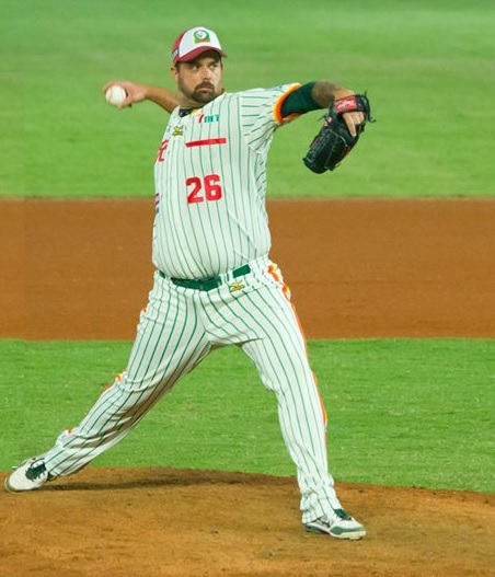 Boof Bonser at a baseball game of Taichung of Taiwan in October 26, 2013.